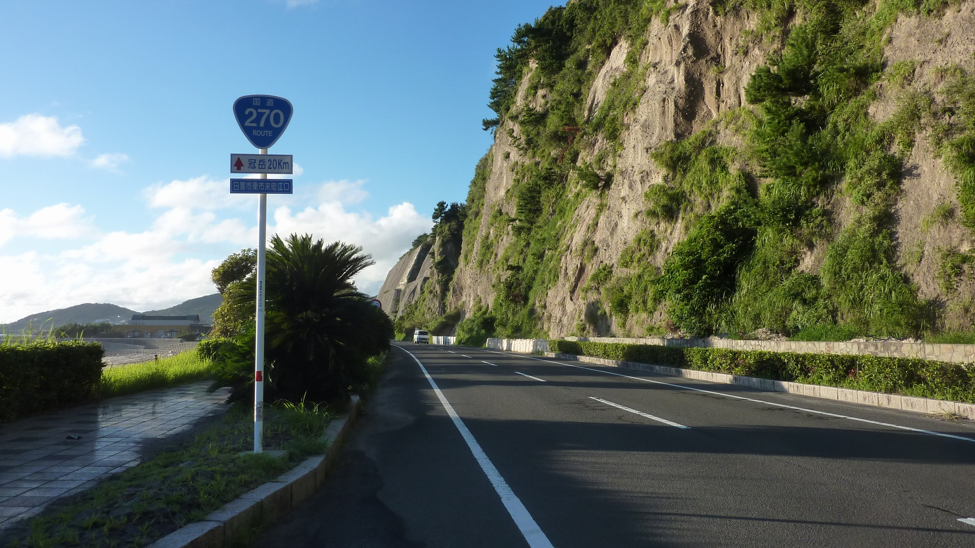 The National Route 270 in Hioki City, Kagoshima Prefecture, Japan.